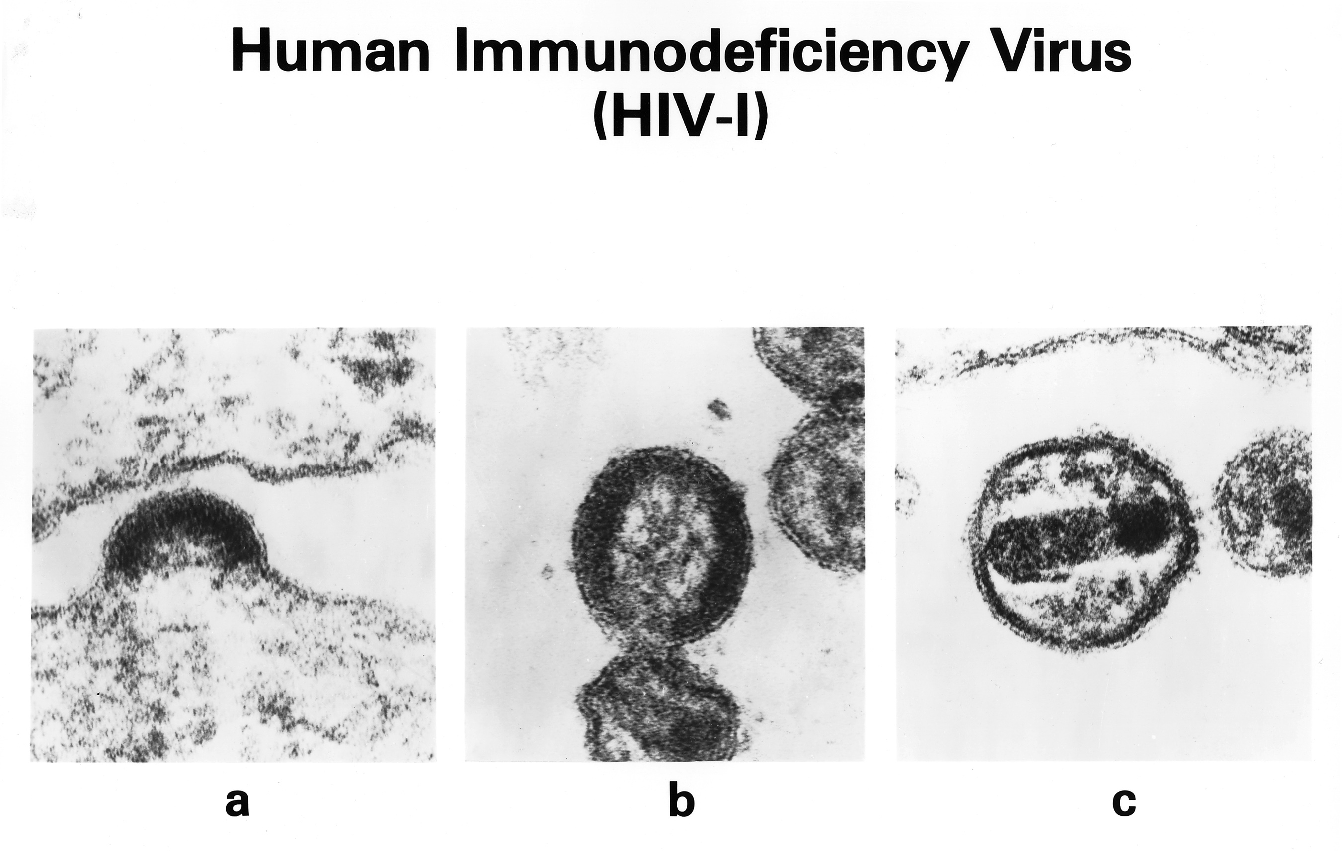 Title HIV-I Description Three of the earliest visible stage of Human immunodeficiency virus (HIV) replication. It occurs when viral proteins accumulate under the cell membrane in a process called budding (a). In the next stage a crescent shaped early bud has constricted, forming a membrane-encapsulated sphere, with the dense center called a viral nucleoid (b). As the constricting process continues, the virus pinches off and becomes free extracellular infectious virus (c). At this stage, the dark circular mucleoid condenses into a bar; this morphologic feature is used to discriminate HIV-I from HTLV-II and HTLV-III. Topics/Categories Cancer Types -- AIDS-Related Cells or Tissue -- Abnormal Cells or Tissue Type B&W, Photo Source Laboratory of Cell And Molecular Structure. National Cancer Institute